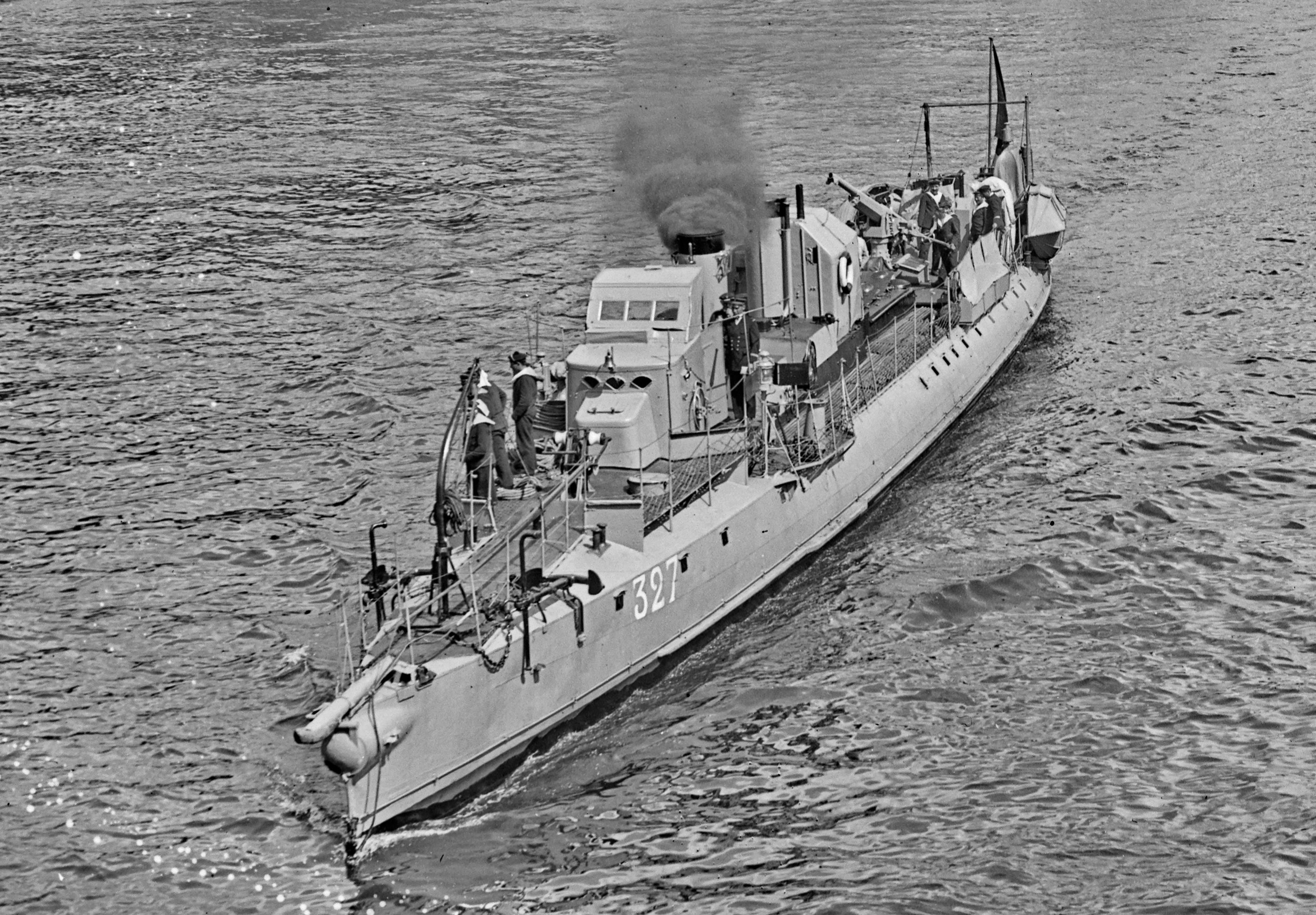 Torpedo boat 327 (Type 38 m) of the French Marine nationale, on the Seine, in Paris, during a nautical festival held by the Ligue maritime et coloniale.